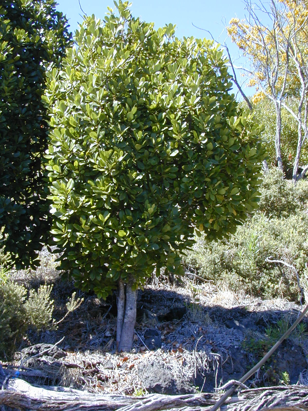 Myrsine lessertiana (habit). Location: Maui, Auwahi